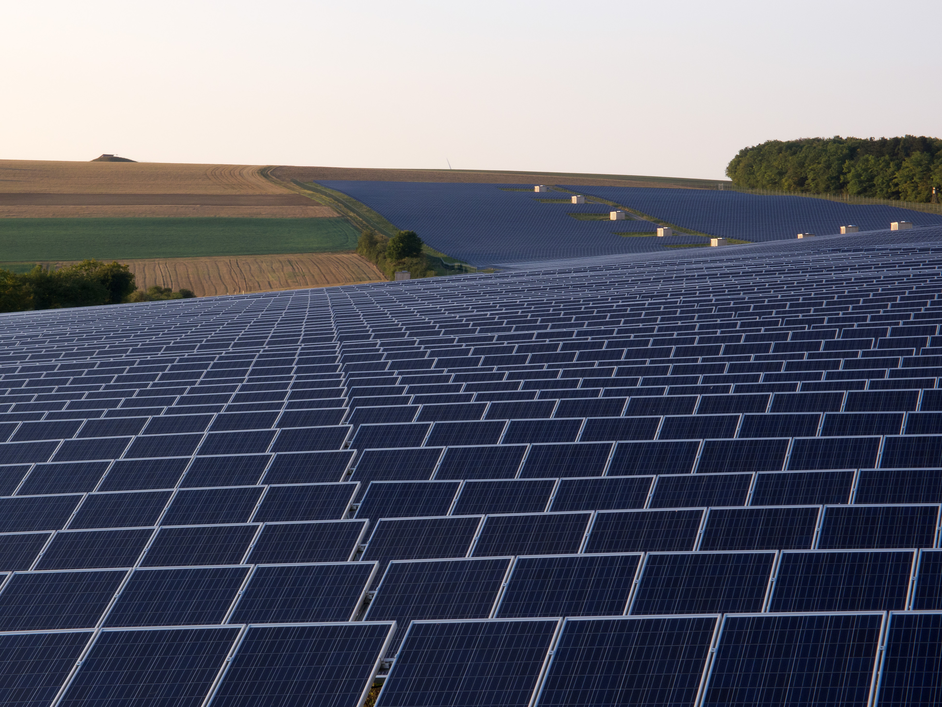 Photovoltaic system with 19 Megawatts peak near Thüngen/Bavaria